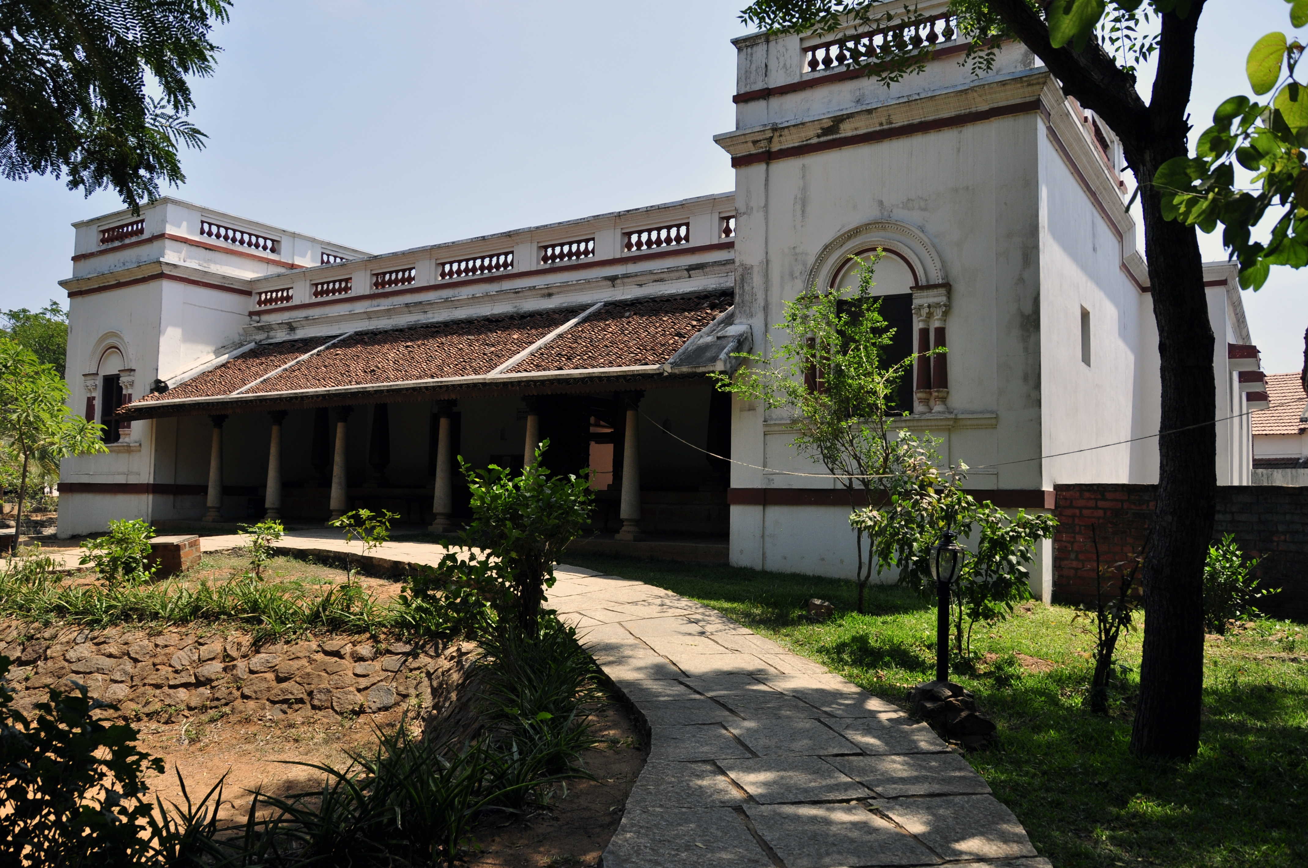 Front view of a Chettinad house - Photographed in Dakshinchitra, chennai.